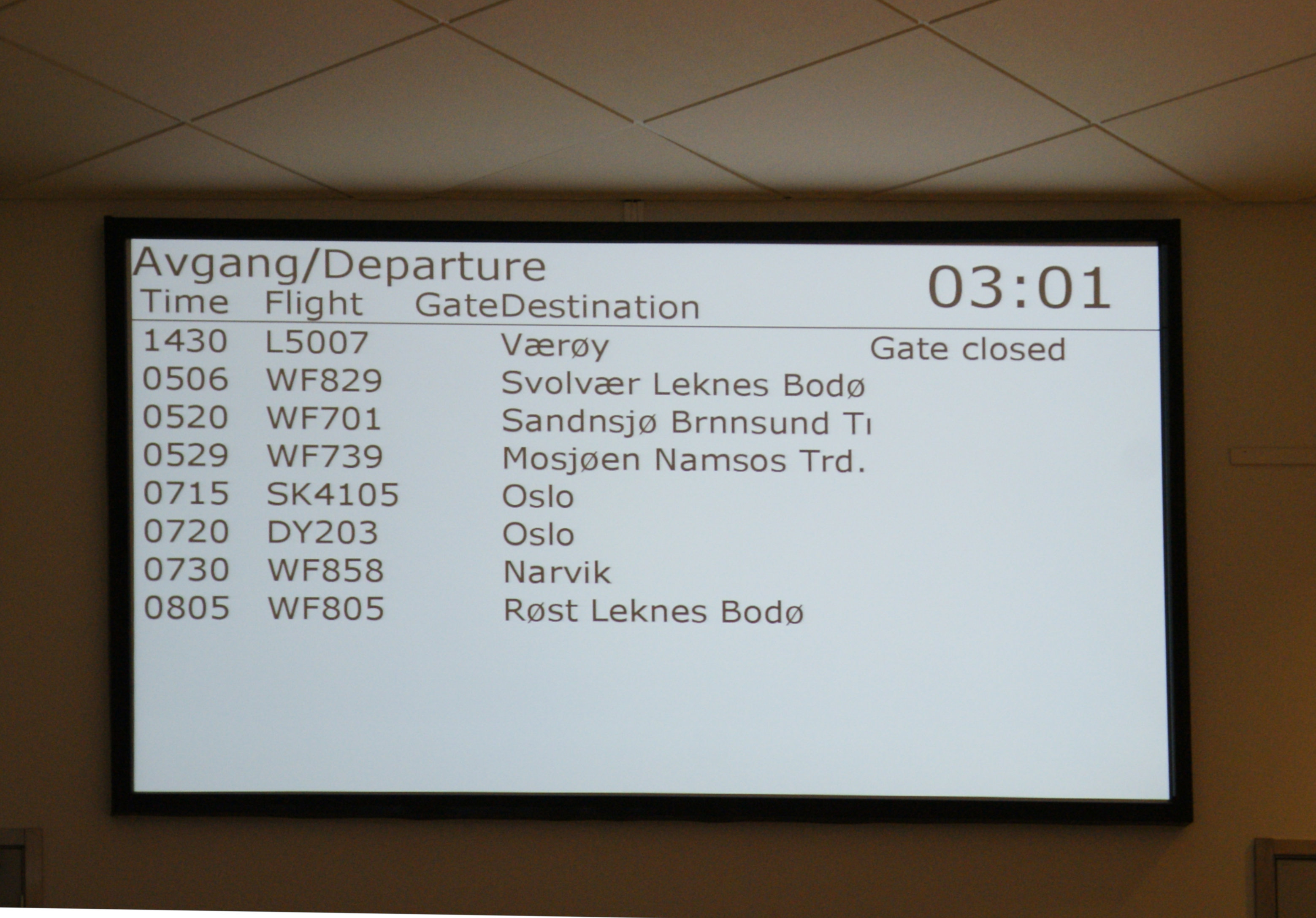 Bodø Airport, Salten, Nordland, Norway. Departures timetable with multiple accessibility issues: very light text color on light background, low contrast, unusual abbreviations and truncation.